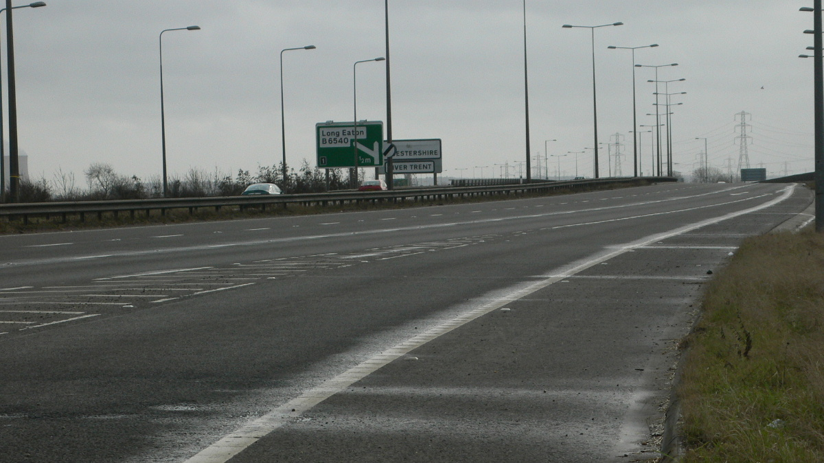 A50 west of junction 1, my image, March 2006, jimfbleak 06:00, 11 April 2006 (UTC)